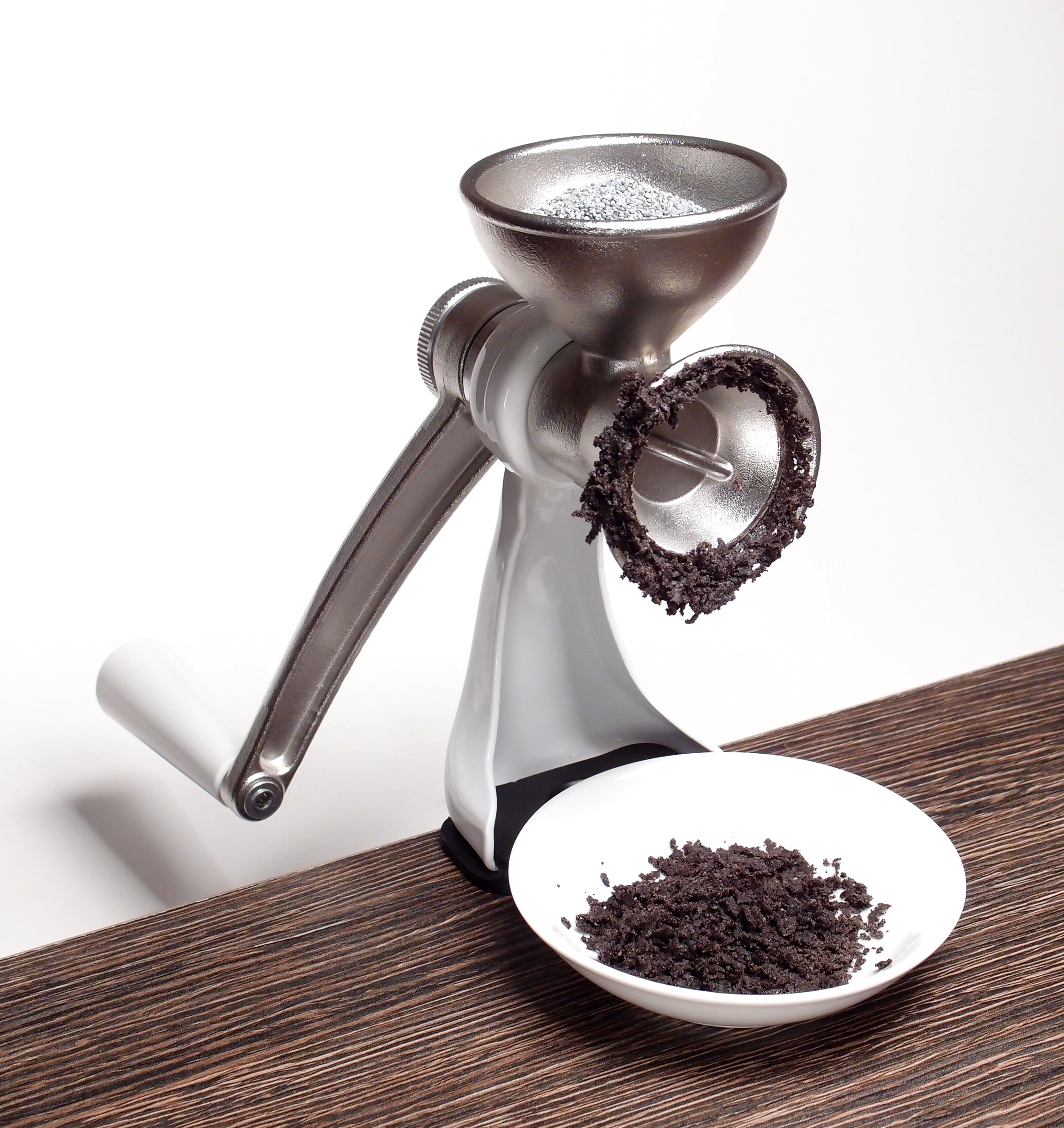 Hand-operated poppy seed grinder, Jupiter model no. 560. Shown here while it is being used to grind a small batch of black poppy seeds.